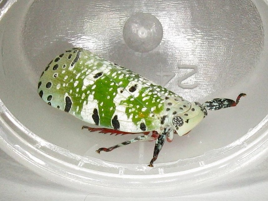 Parapioxys jucundus; diagonal view